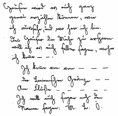 Hauser will be able to tell you quite precisely how I look and from where I am. To save Hauser the effort, I want to tell you myself from where I come _ _ . I come from from _ _ _ the Bavarian border _ _ On the river _ _ _ _ _ I even want to tell you the name: M. L. Ö.